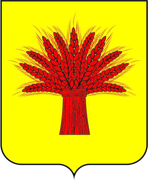 Coat of Arms of Turkmensky rayon, Stavropol Territory, Russia